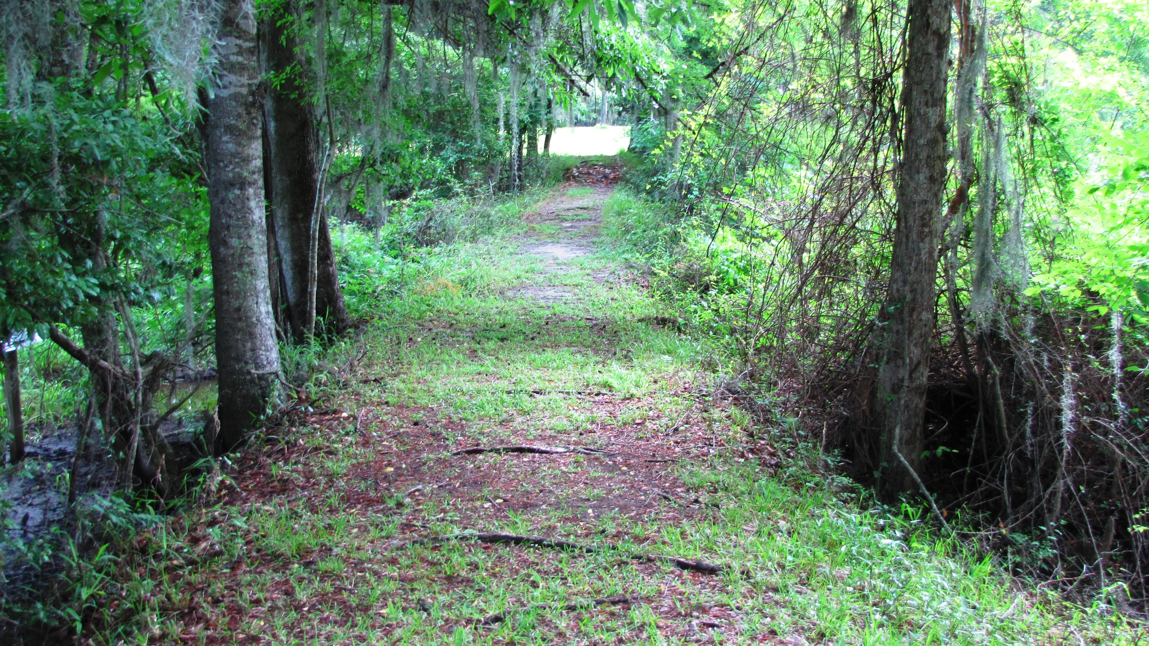 View across the remnants of a rice paddy dike at the Hampton Plantation State Historic Site in Charleston County, South Carolina, USA.